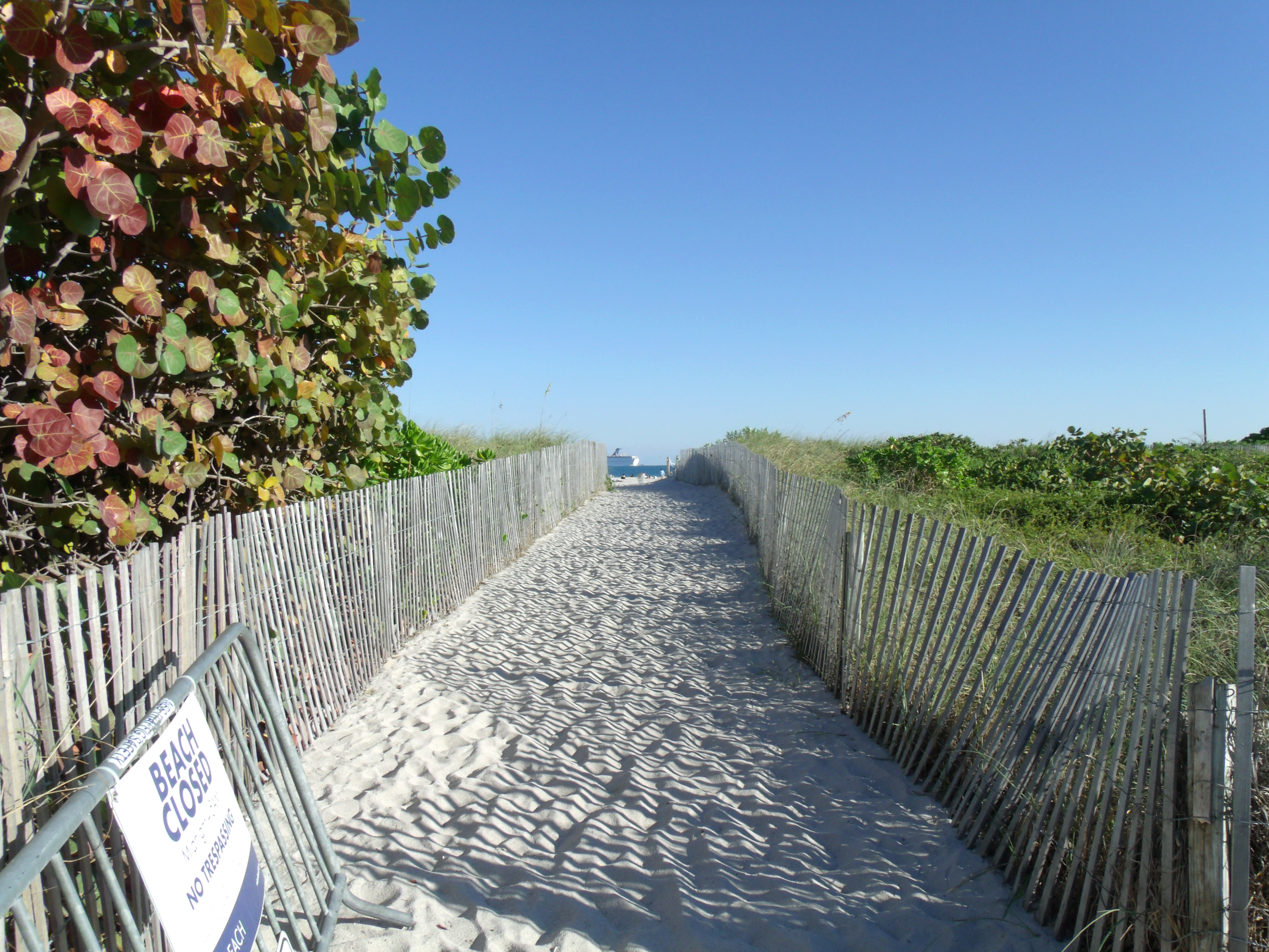 One of the entries to the coast in Ocean Drive (South Beach, Miami, Florida).